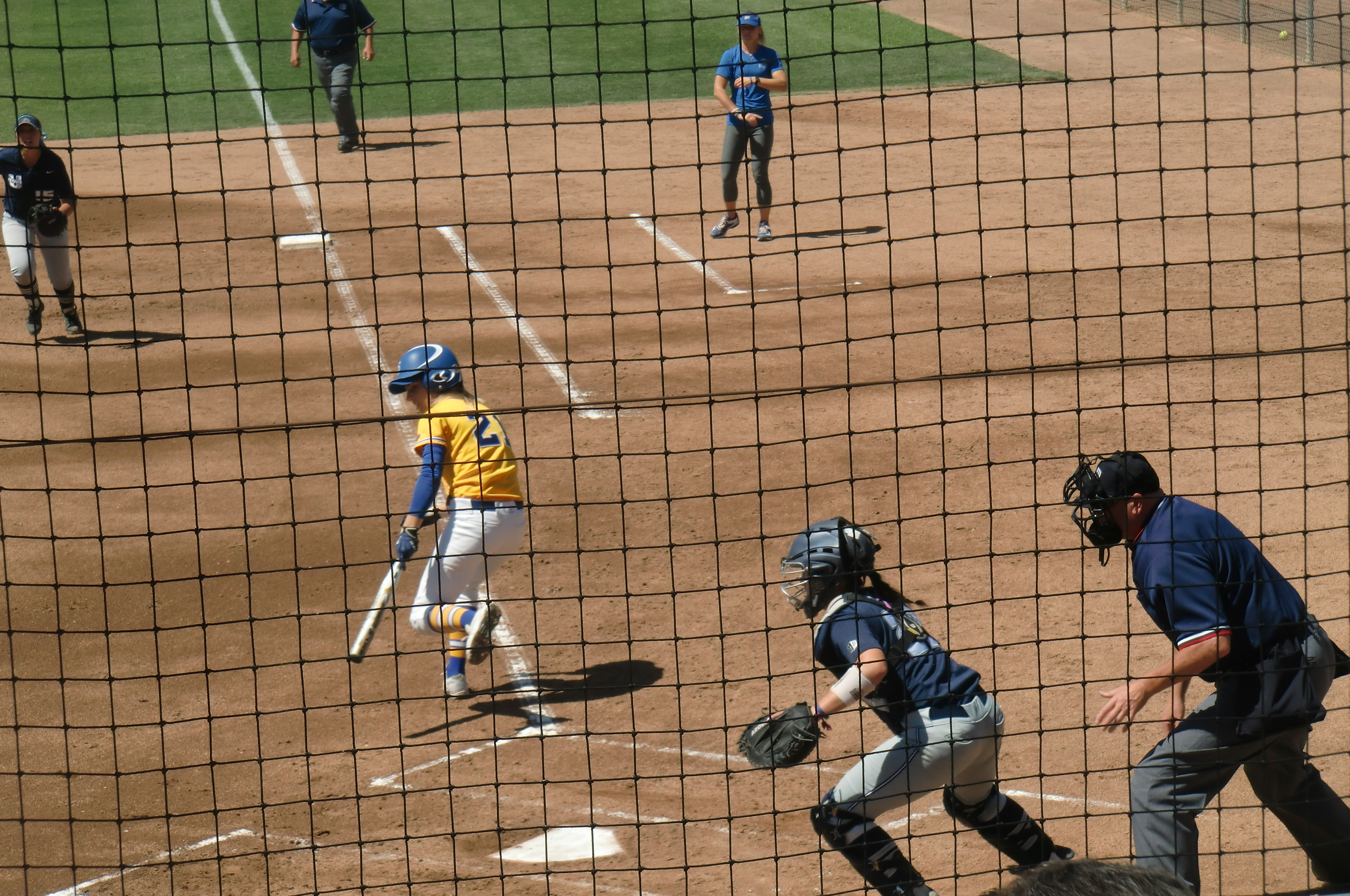 San Jose State University softball outfielder Michelle Cox attempts a hit on April 17, 2015 against Utah State University.